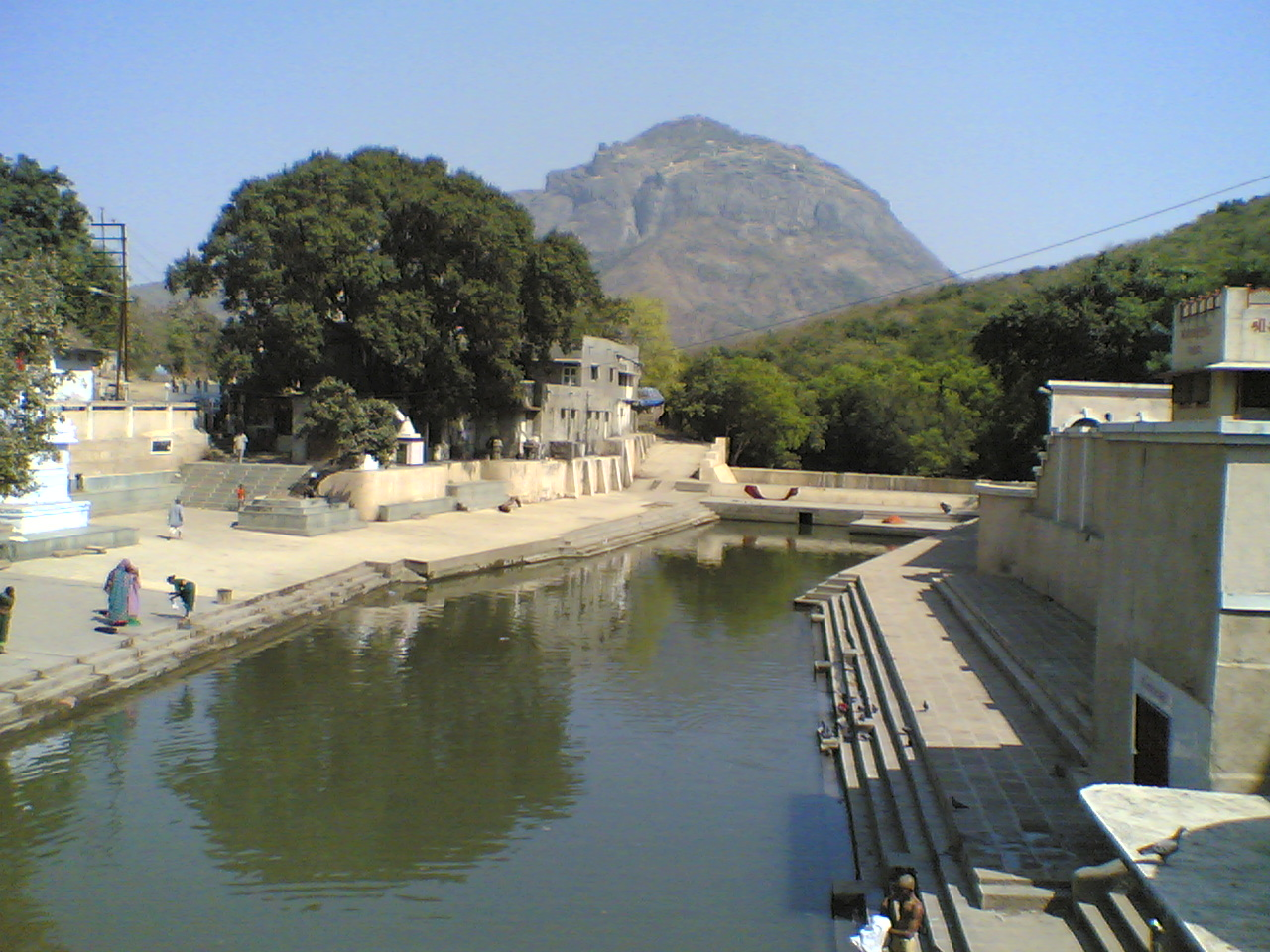 There is view of Girnar Hills from Damodar Kund at Junagadh. I have captured this photograph, when I visited Junagadh earlier 2007.